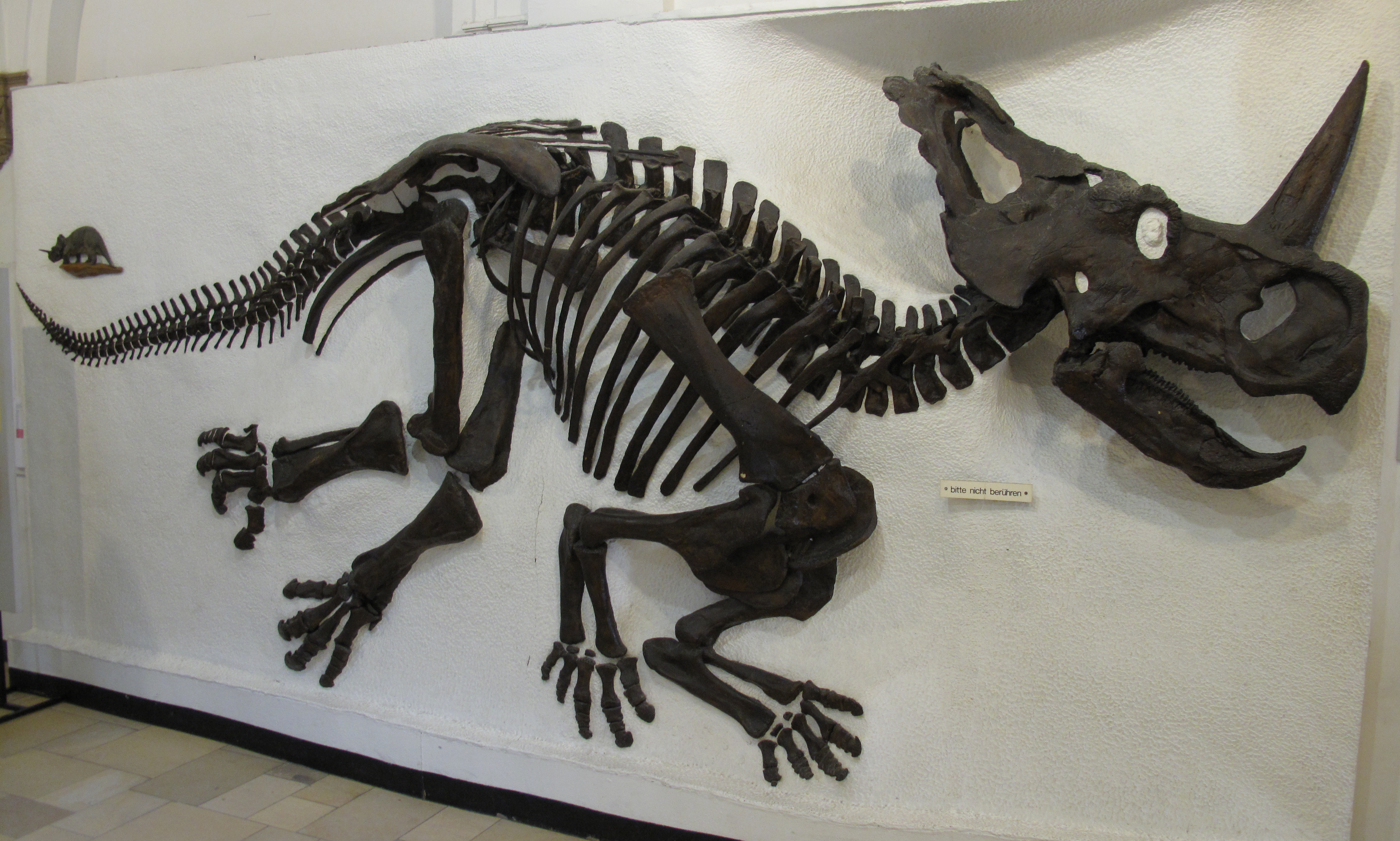 A Monoclonius nasicornus in the Paläontologisches Museum in Munich, Germany.